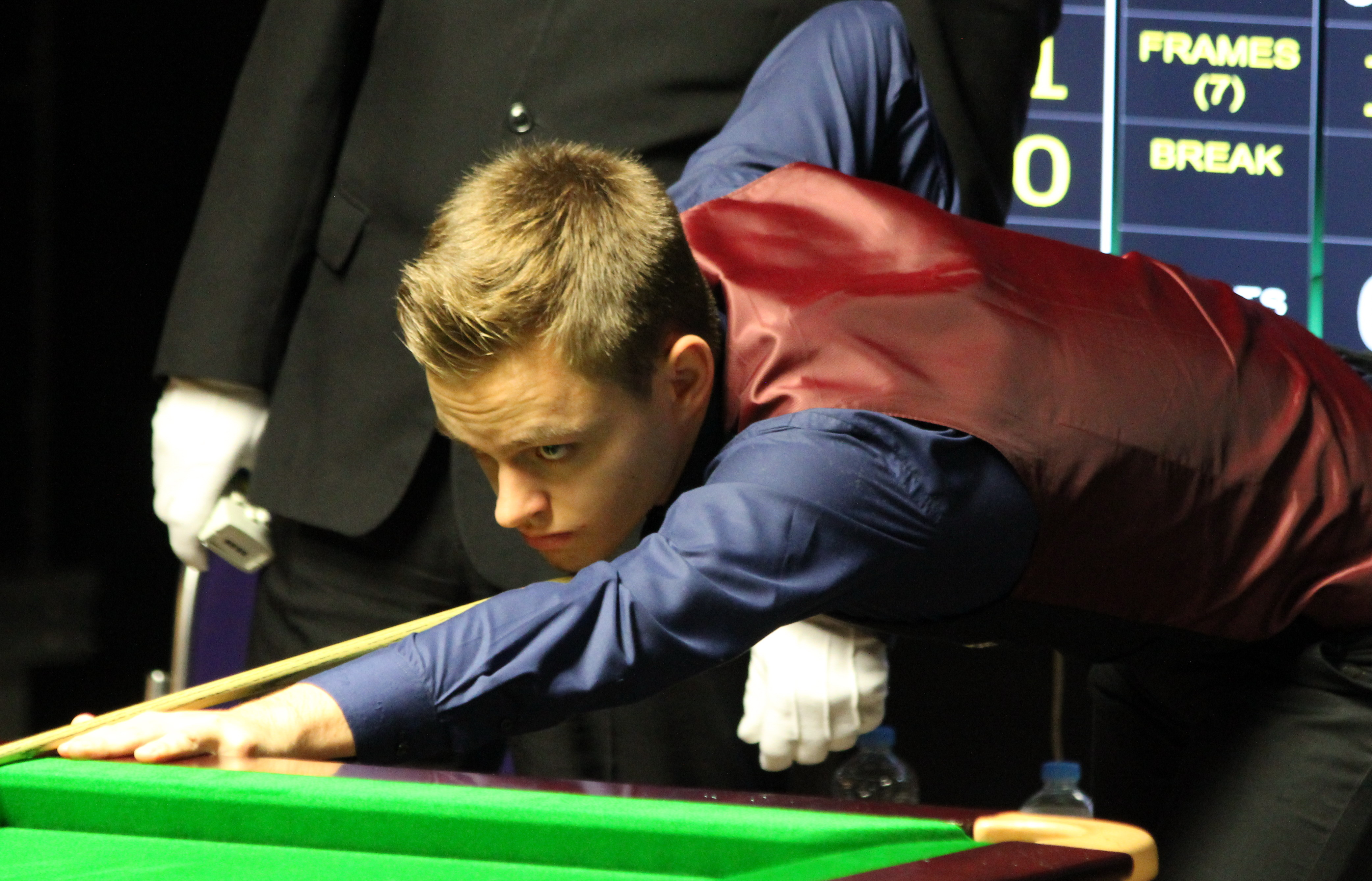 Lukas Kleckers at the Paul Hunter Classic 2017